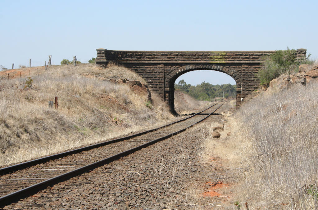 Near Lethbridge railway station, on the Geelong - Ballarat railway line, Victoria, Australia